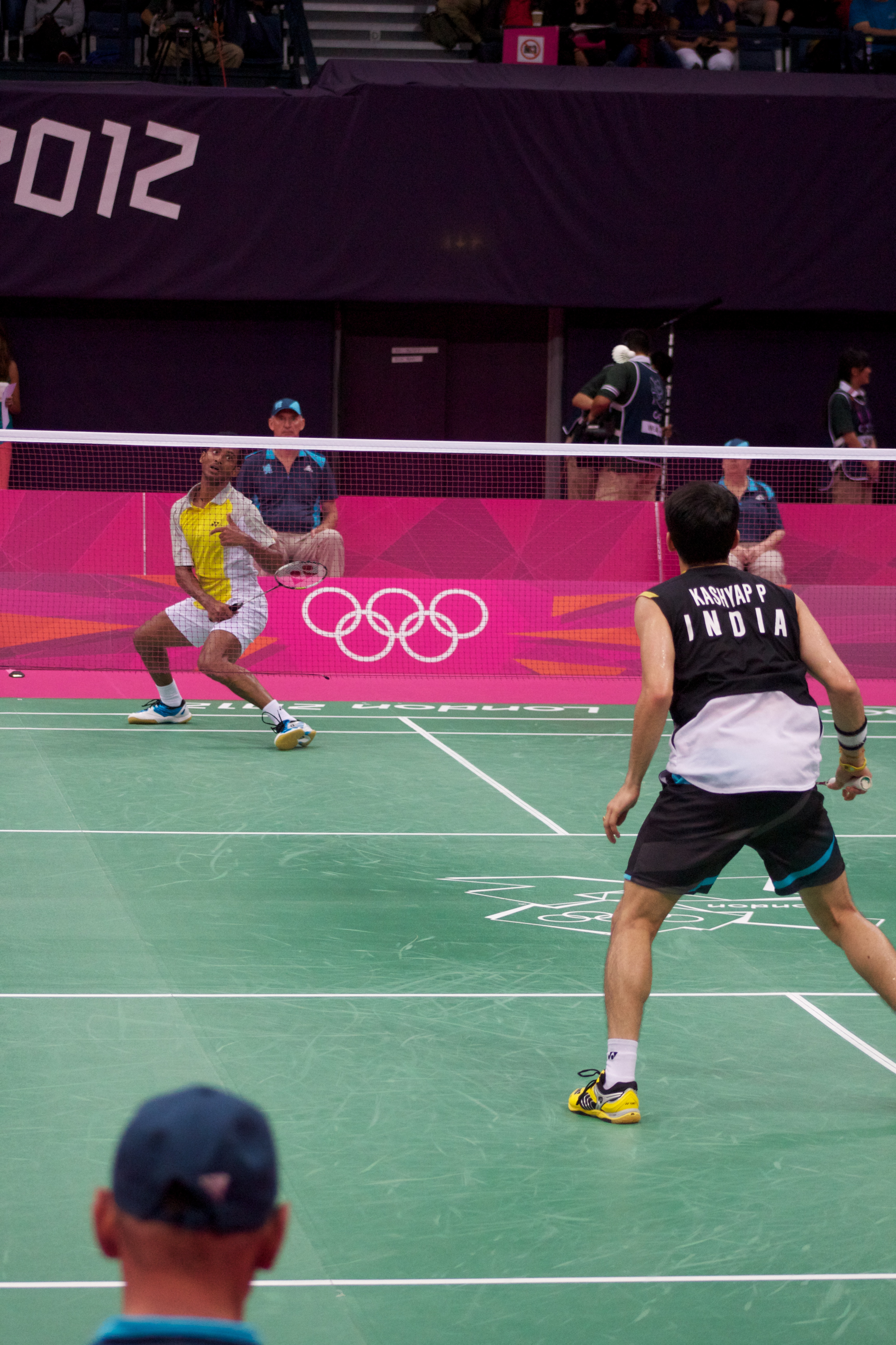 Badminton at the 2012 Summer Olympics